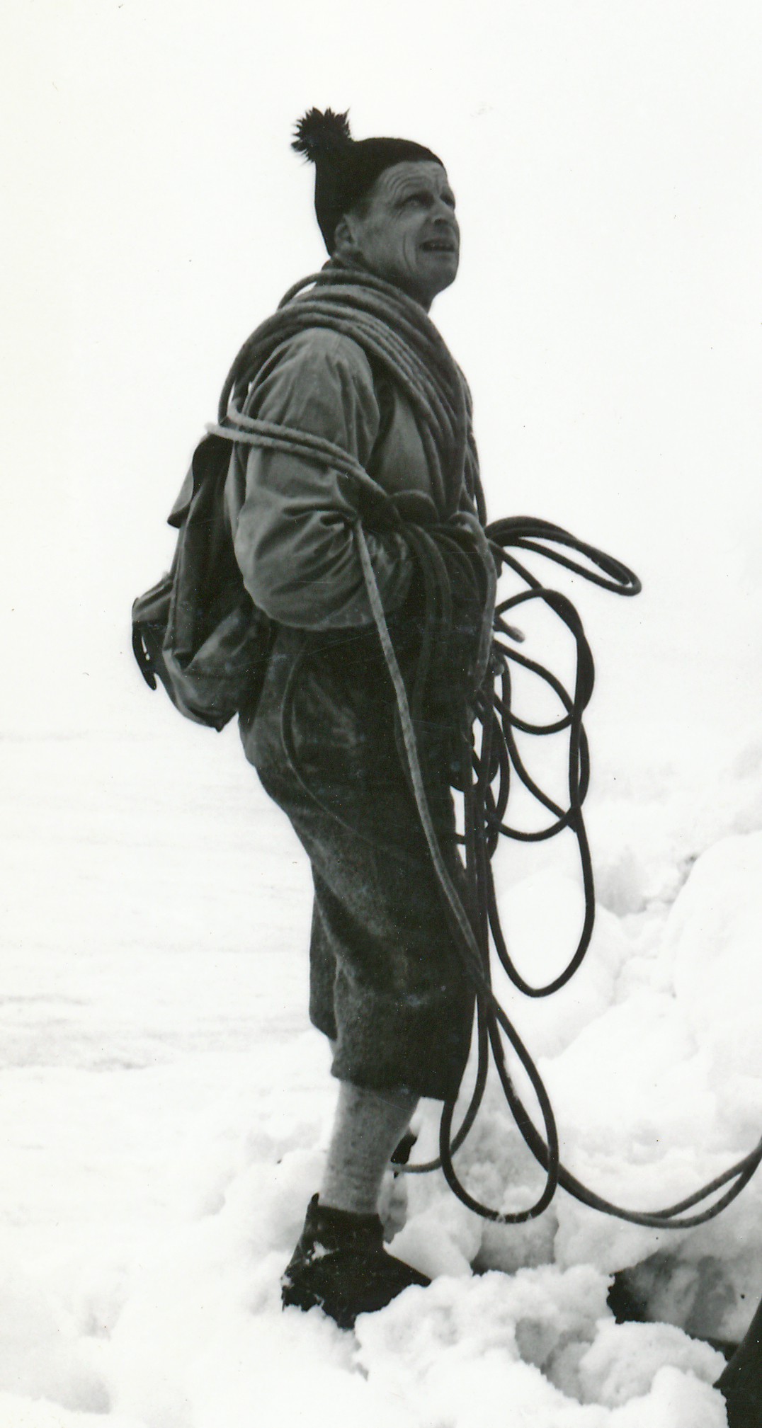 Foto by Alex Moroder =